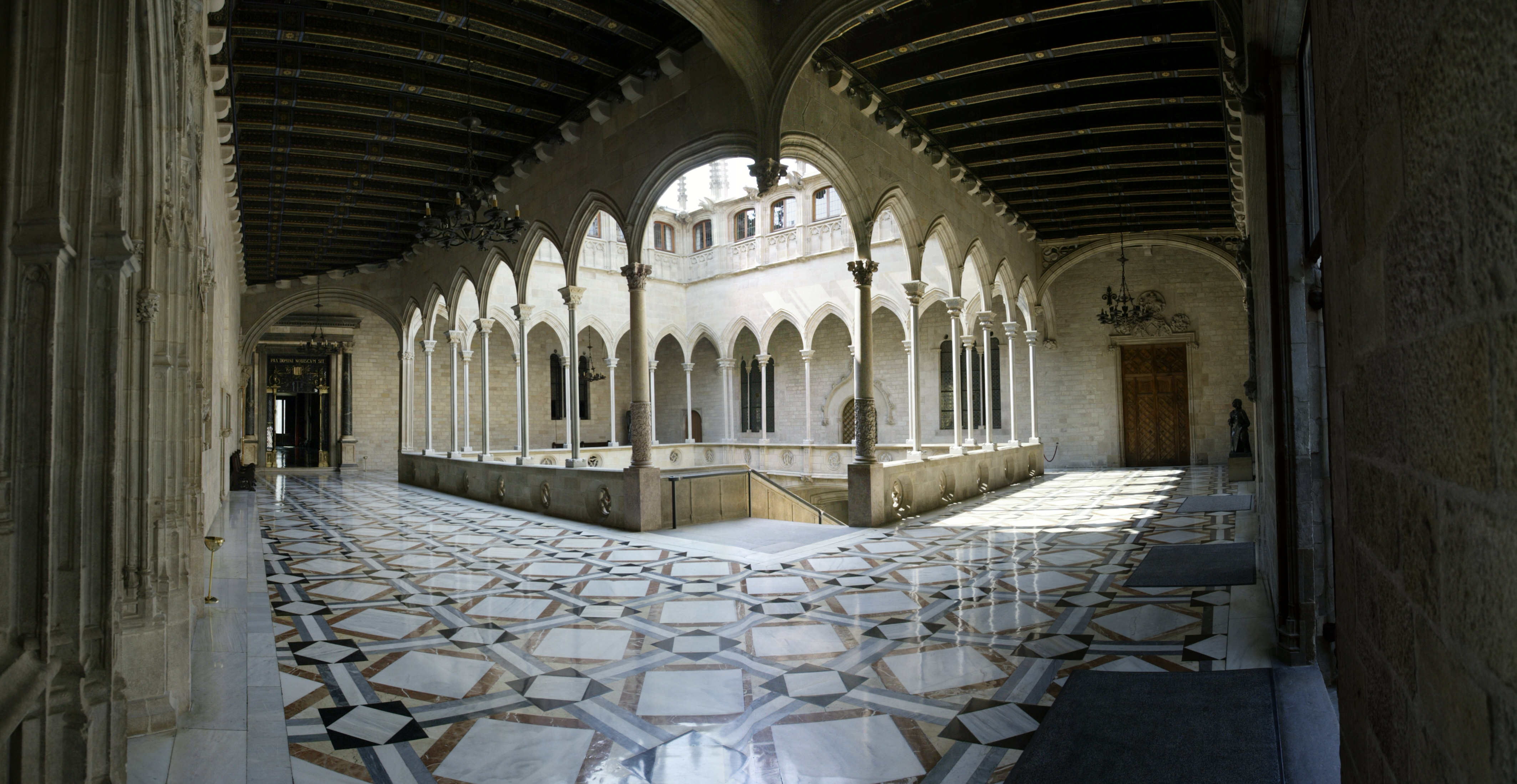 The Palau de la Generalitat houses the offices of the Presidency of the Generalitat de Catalunya